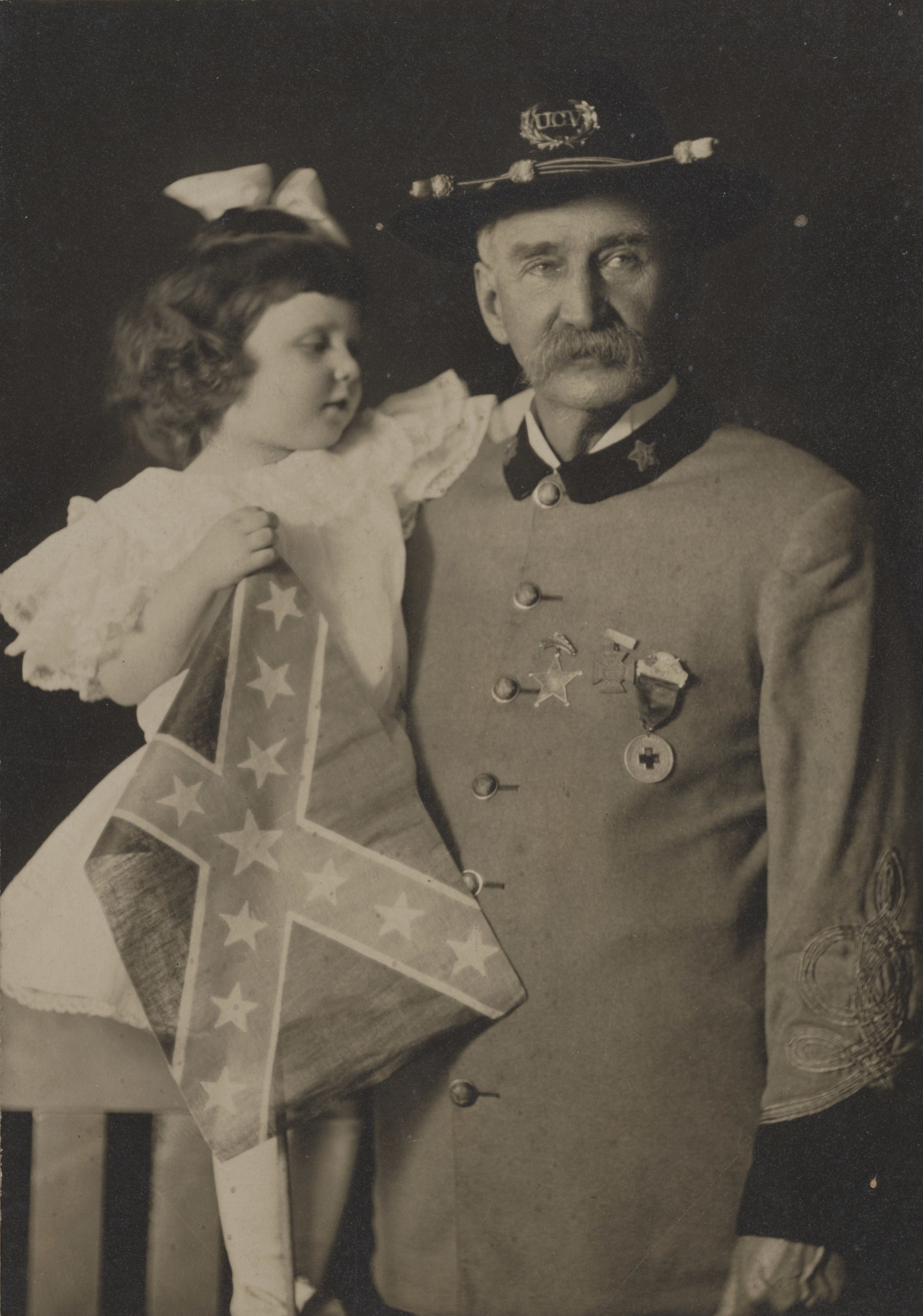 Title: Civil War veteran Thomas Benjamin Amiss in U.C.V. uniform with medals holding young girl with Confederate flag] / Strickler[?], Luray, Va Note: Enlisted in the Confederate Army as 3rd Cpl., Co. B, 6th VA Cavalry Abstract/medium: 1 photograph : gelatin silver print on card mount ; sheet 14 x 10 cm, mount 27 x 17 cm.